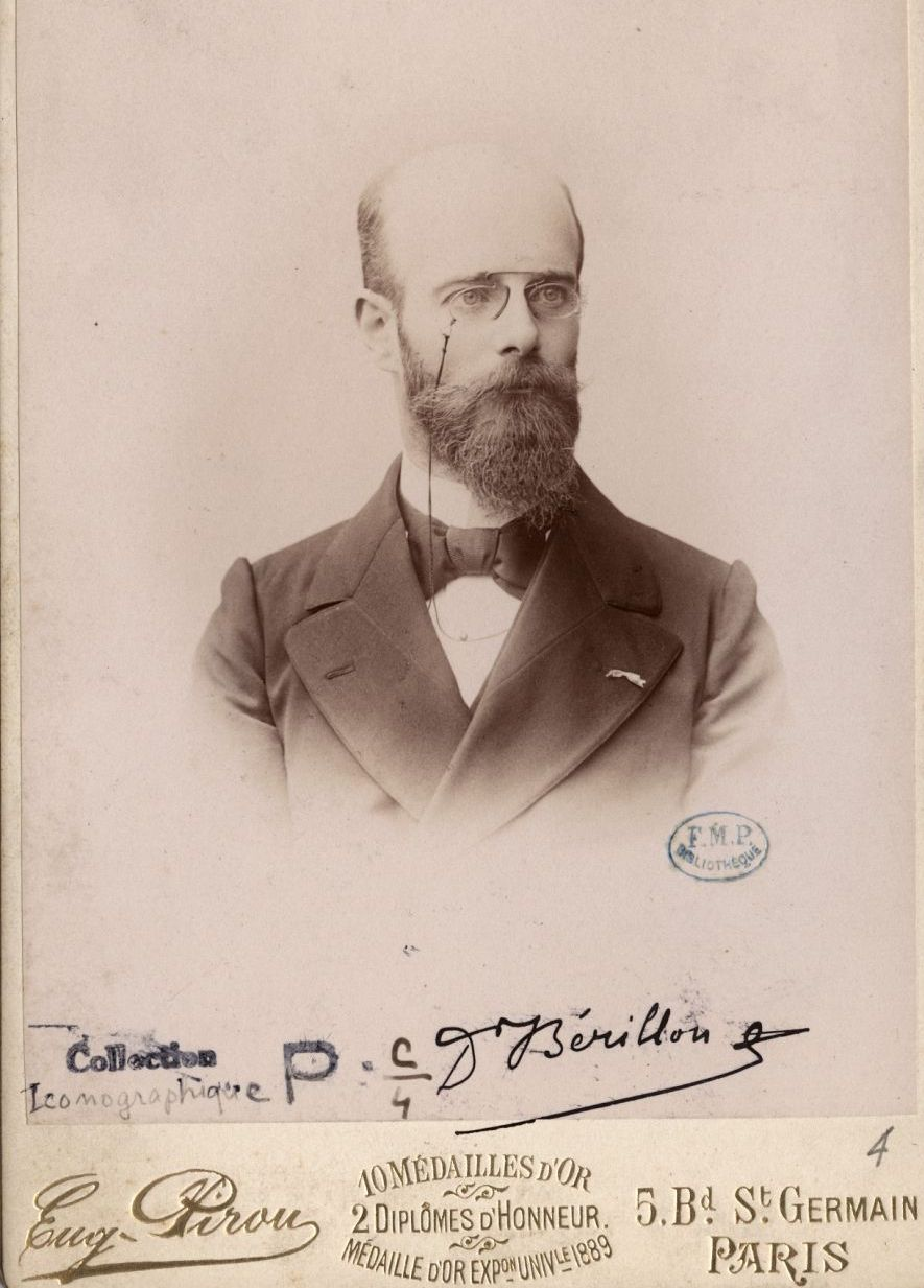 Edgar Berillon (1859-1948), French psychologist